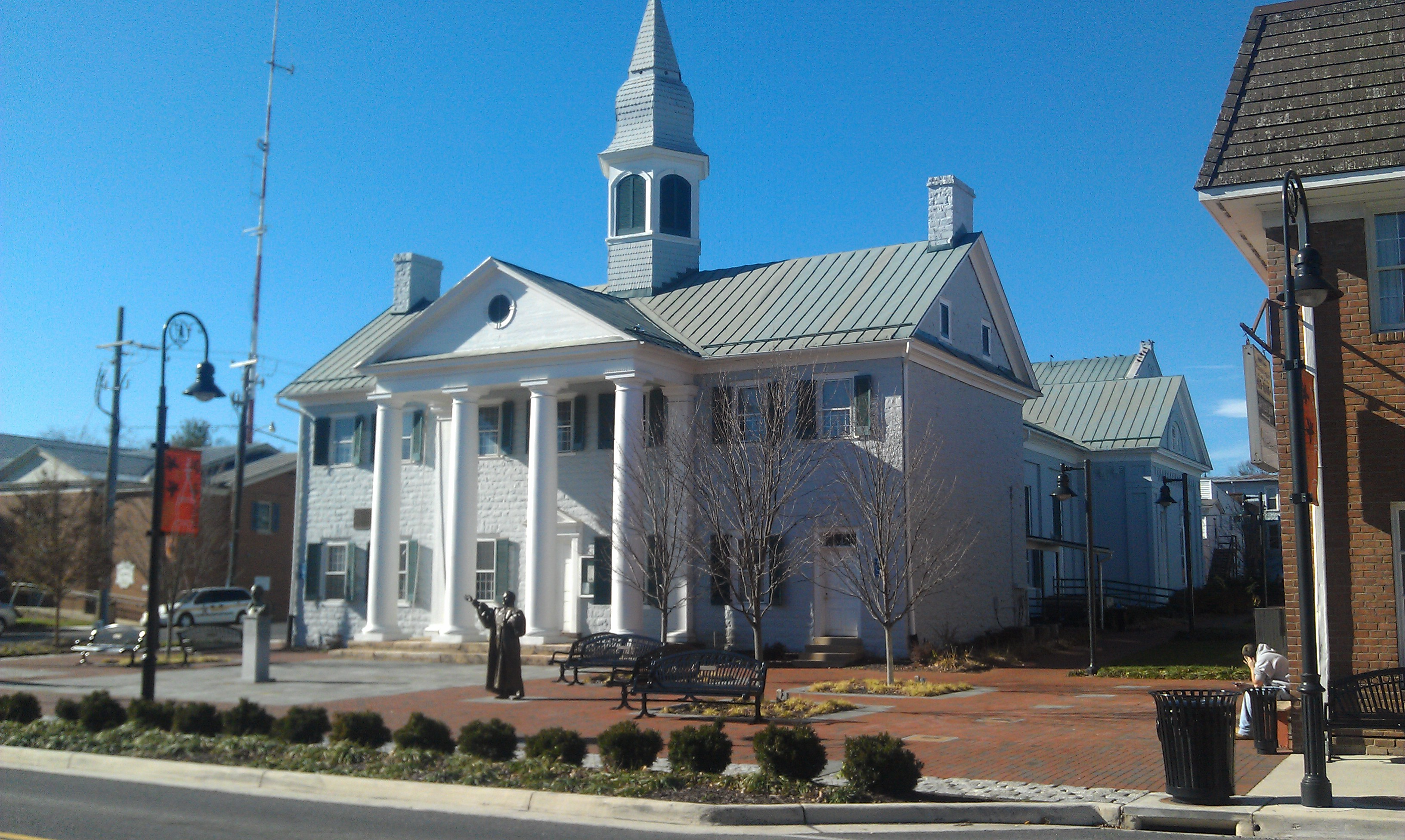 Shenandoah County Courthouse, Woodstock VA, November 2011